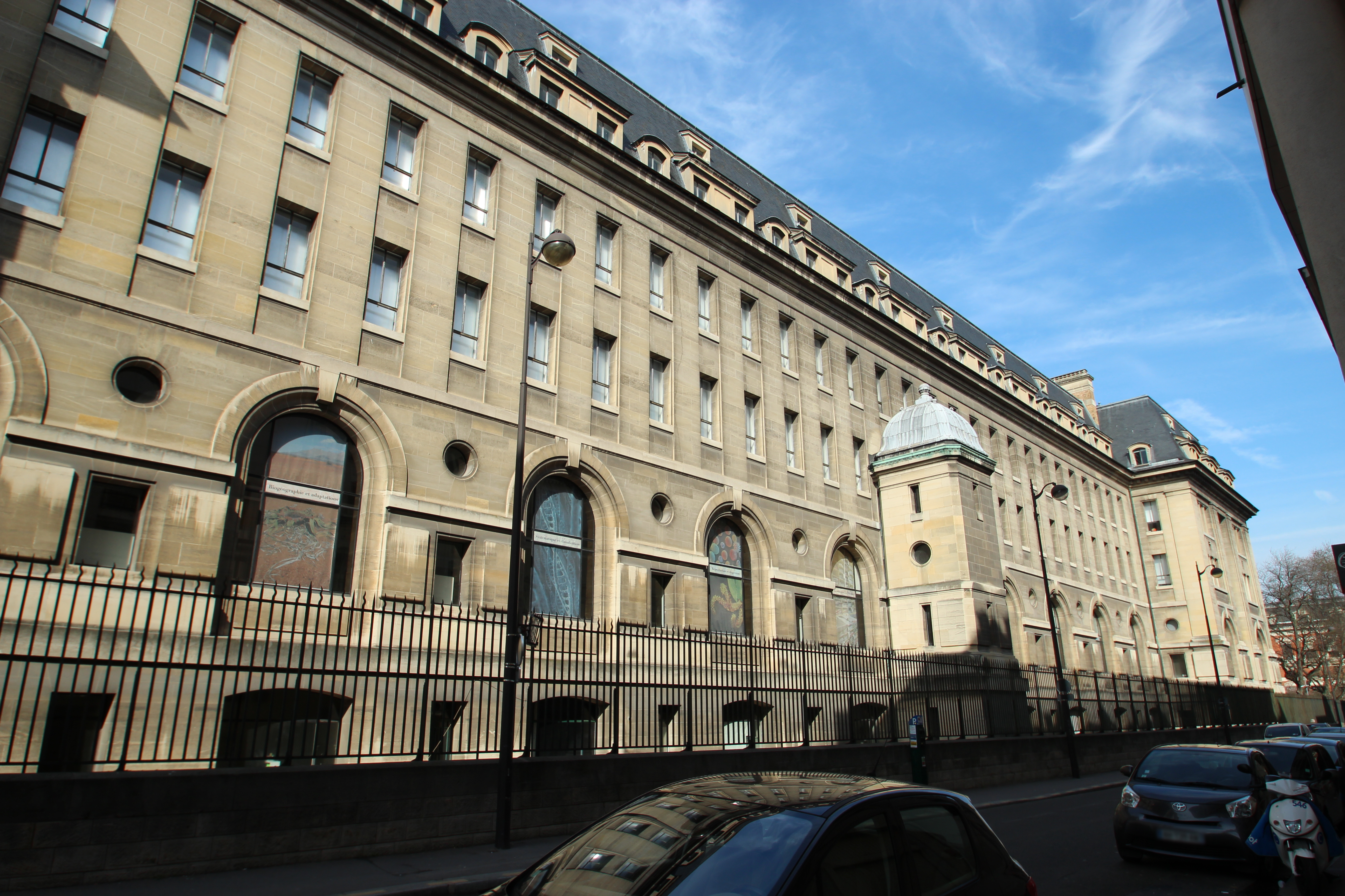 Galerie de Botanique (gallery of botany in french) on Buffon street side of the Jardin des Plantes (garden of plants in french) in Paris, France.